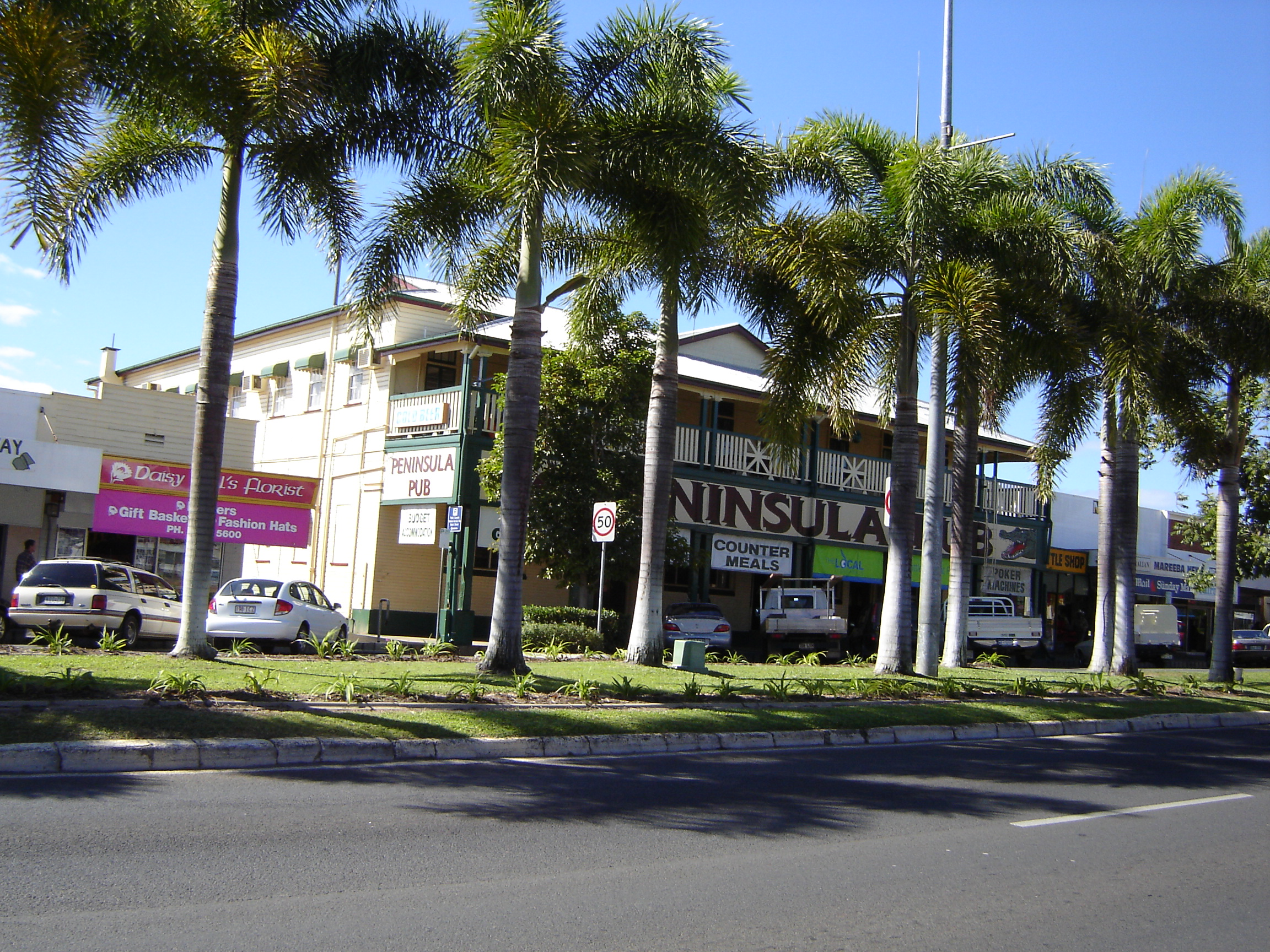 Peninsula hotel, Mareeba. Taken by Dan Miles